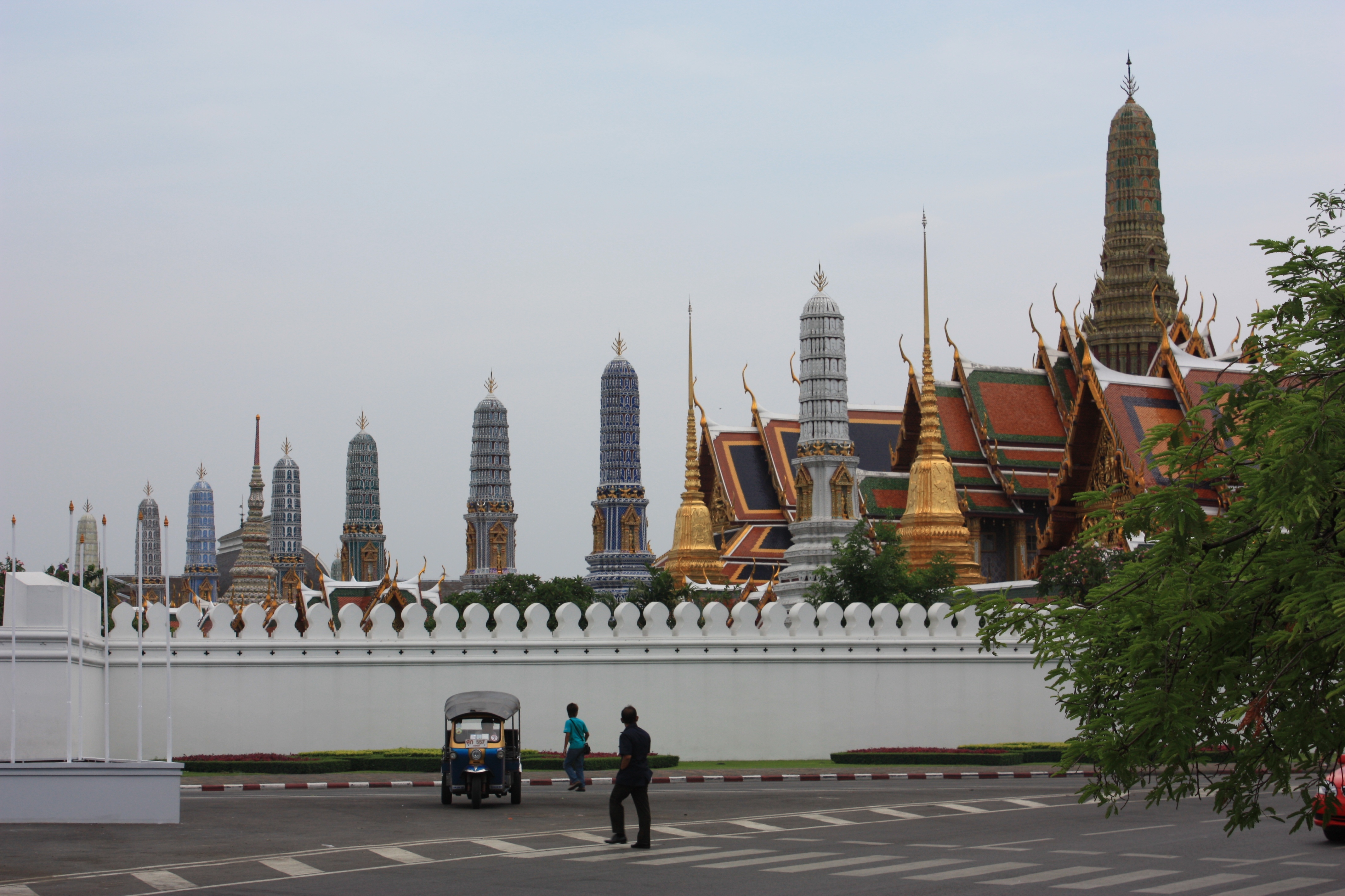 Wat Phra Kaew Bangkok